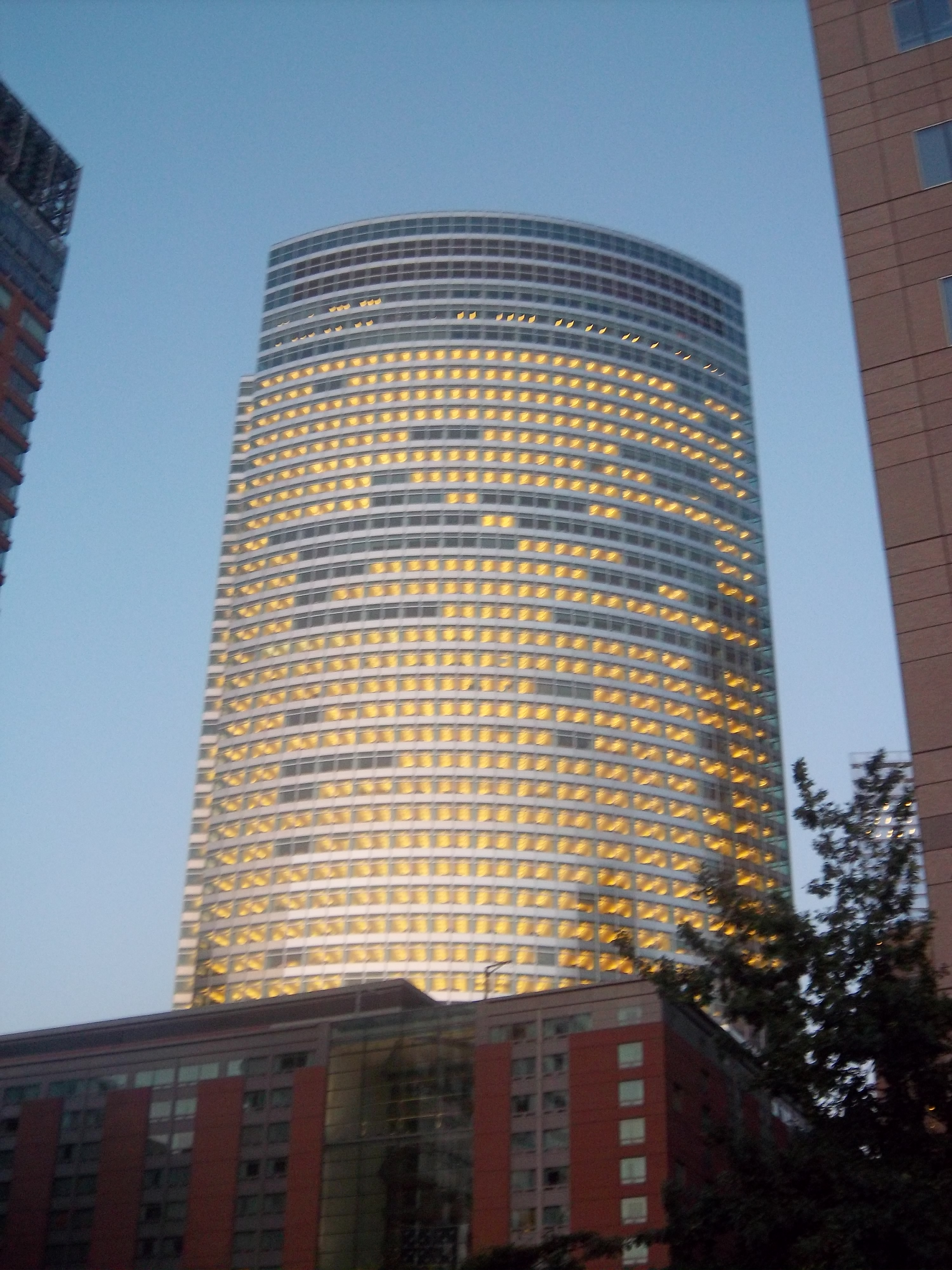 my picture taken on trip in 2010